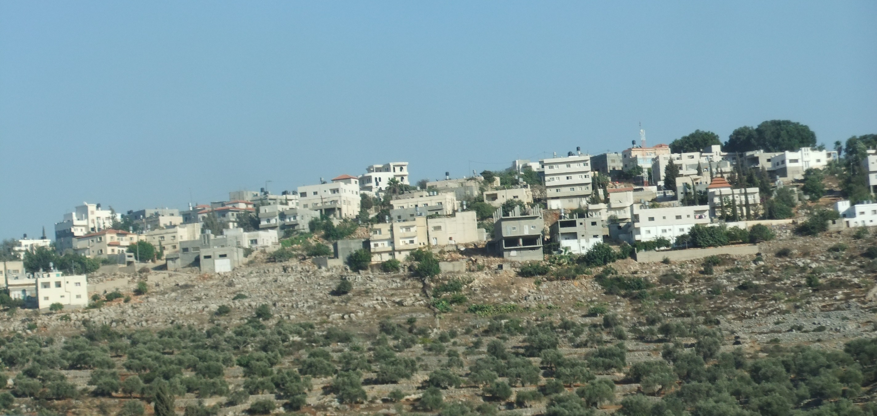 Dir abuMashal